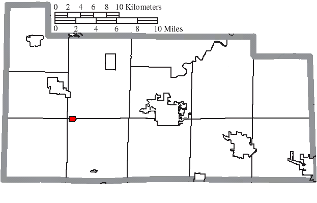 Map of the municipal and township boundaries of Sandusky County, Ohio, United States, as of the 2000 census, with the location of the village of Helena highlighted. Township borders are shown only in unincorporated areas in order to differentiate incorporated and unincorporated areas more clearly.